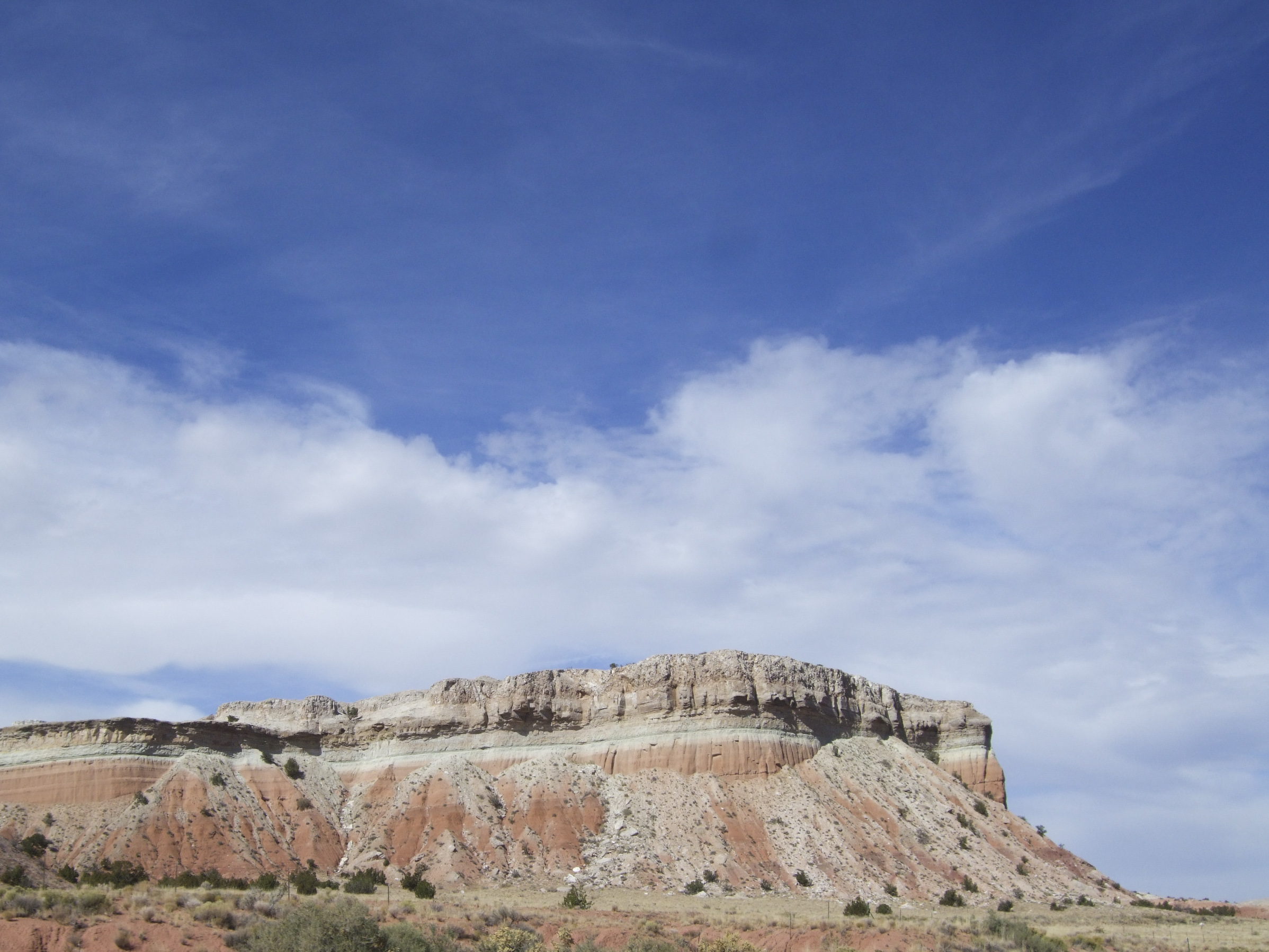 Zia reservation formation near San Ysidro.